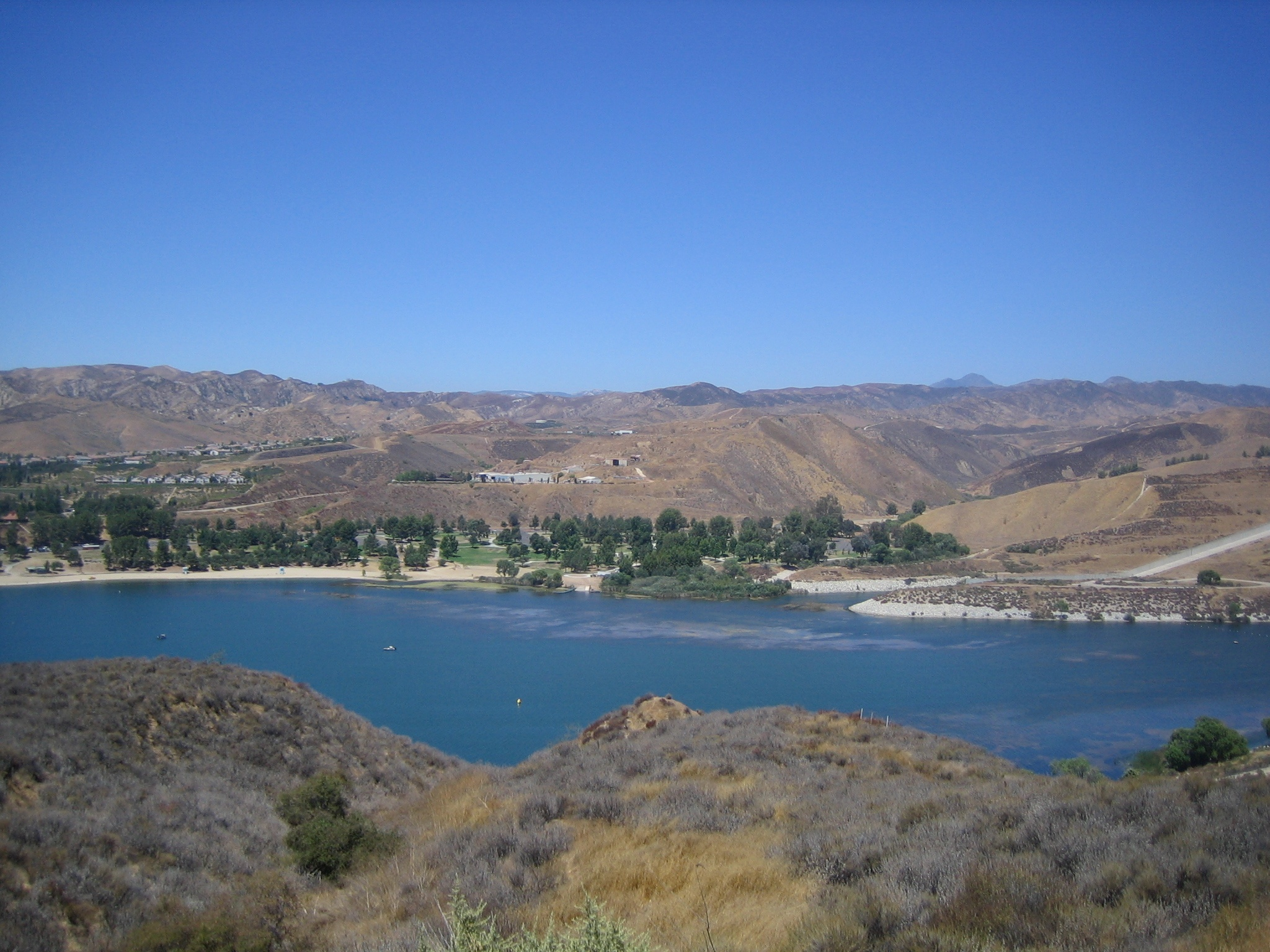 Castaic Lake and the Castaic Lake State Recreation Area, in Southern California.